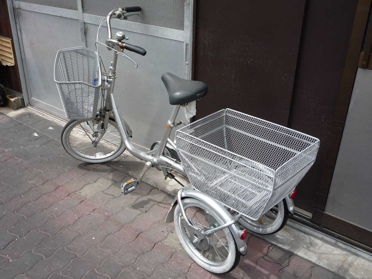 JapaneseTricycle BRIDGESTONE WAGON